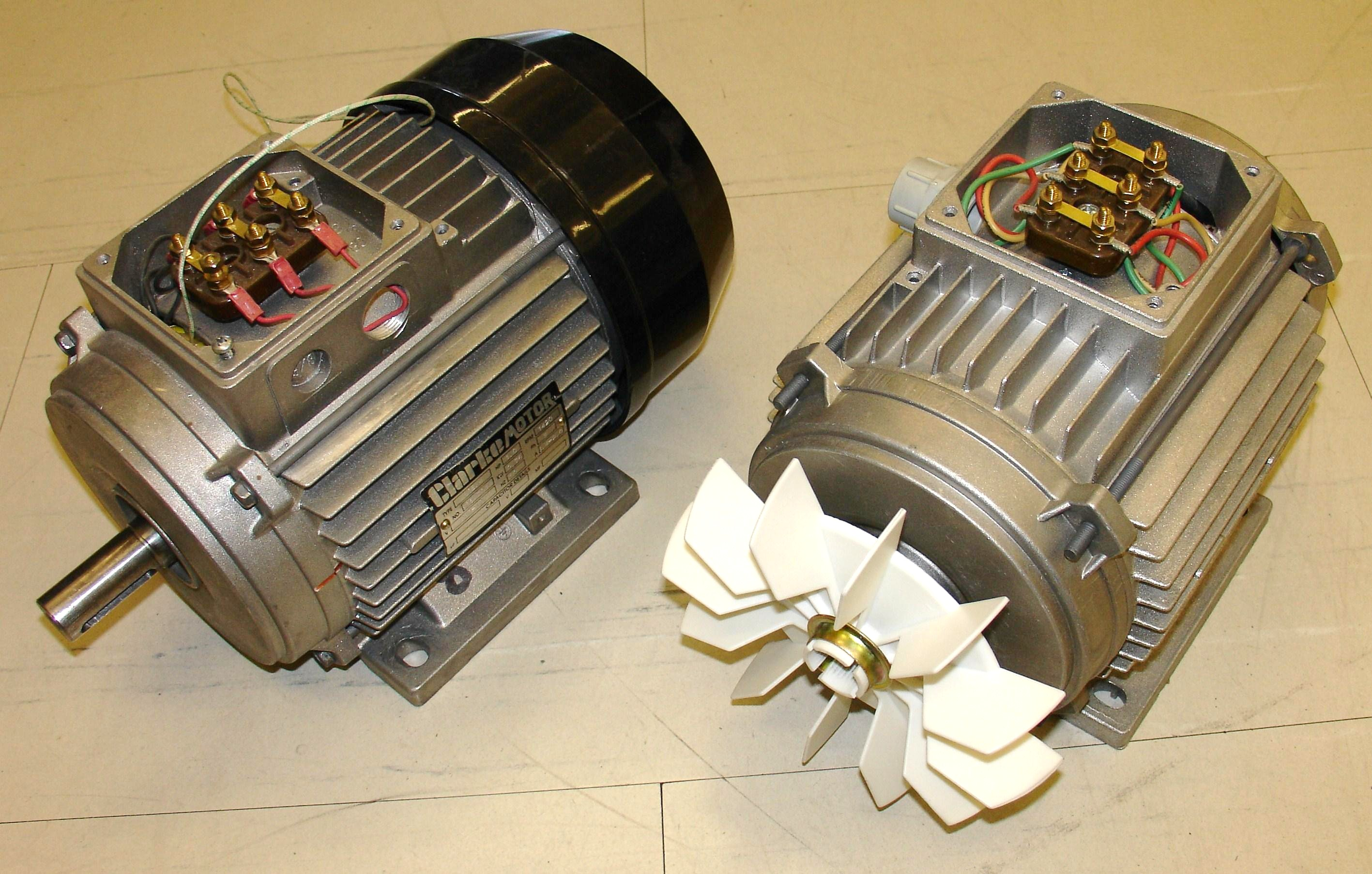 3-phase electric induction motors (delta connection): 0.75 kW, 1420 rpm, 60 Hz, 230-400 V, 2.0-2.4 A